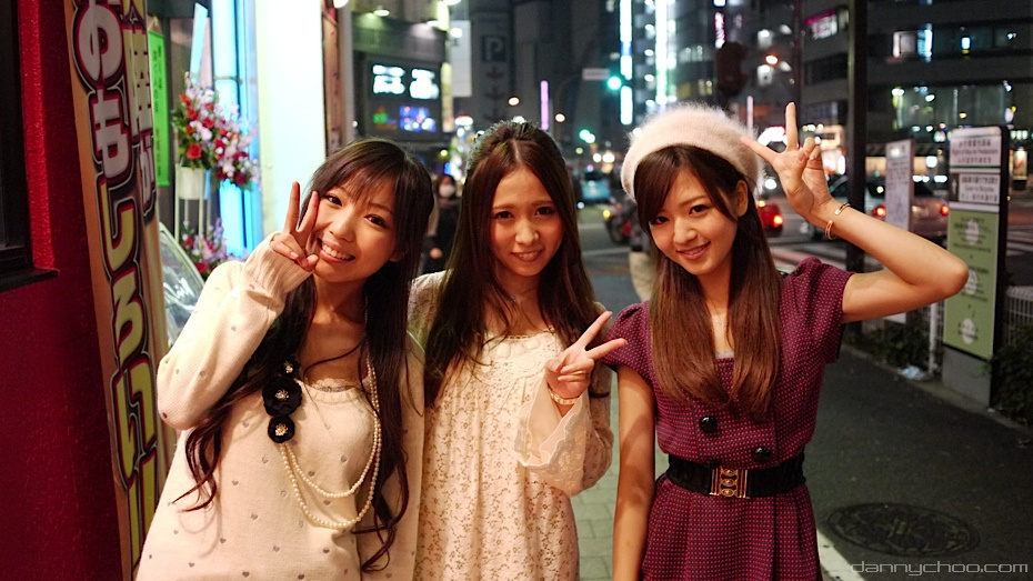 Today we are doing some filming for Culture Japan with the Sega Sammy Group at a Pachinko parlor in Ikebukuro. I have with me (from left to right) the lovely Minori Kawahara [河原実乃梨], Mao Kozuka [小塚 麻央] and Arisa Matsui [松井ありさ]. The 3 of them together are also known as the Amusement Girls. View more at